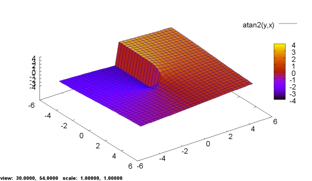 diagram of function atan2 in maxima